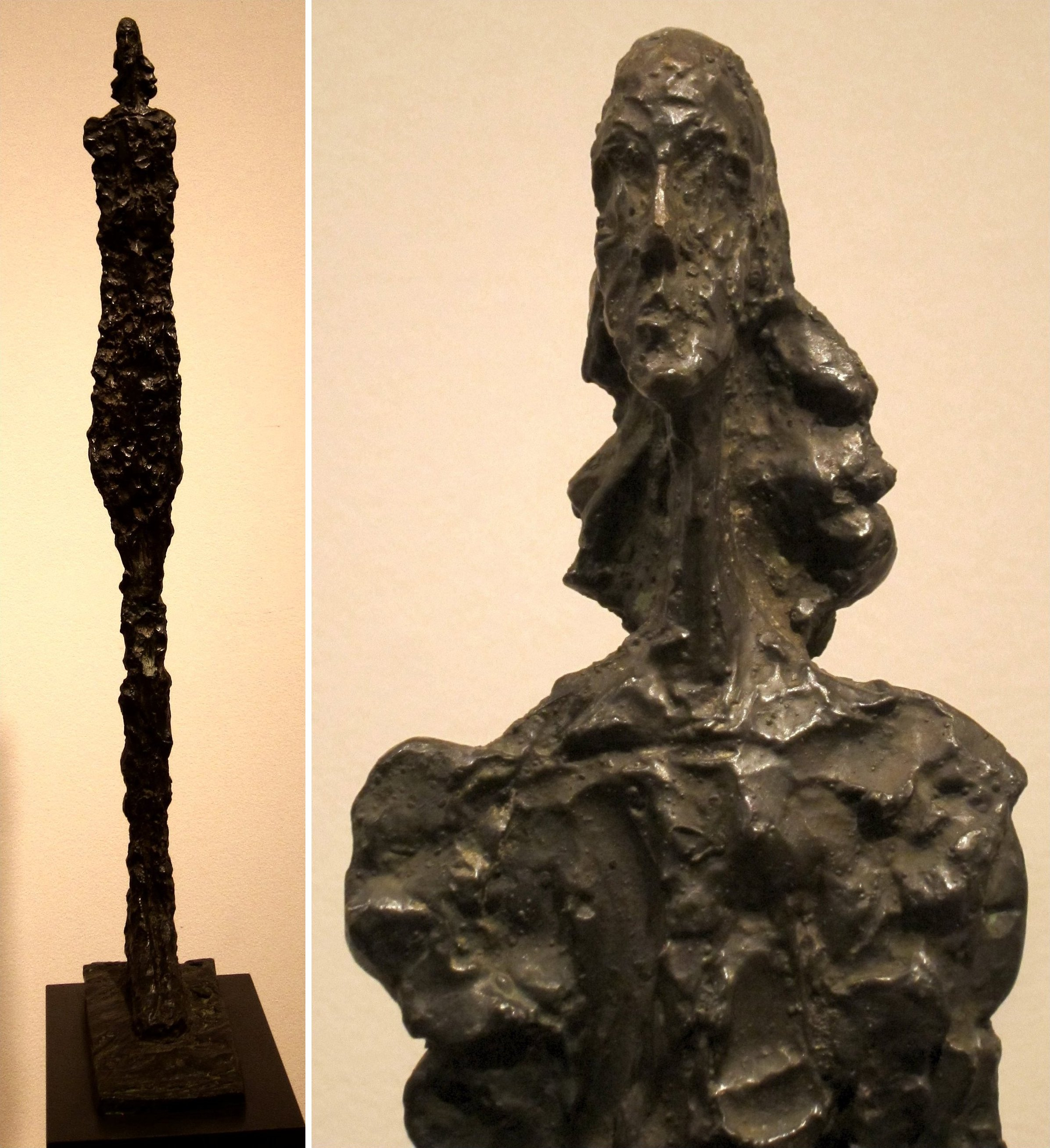 Woman of Venice VII, bronze sculpture by Alberto Giacometti, 1956, Art Gallery of New South Wales